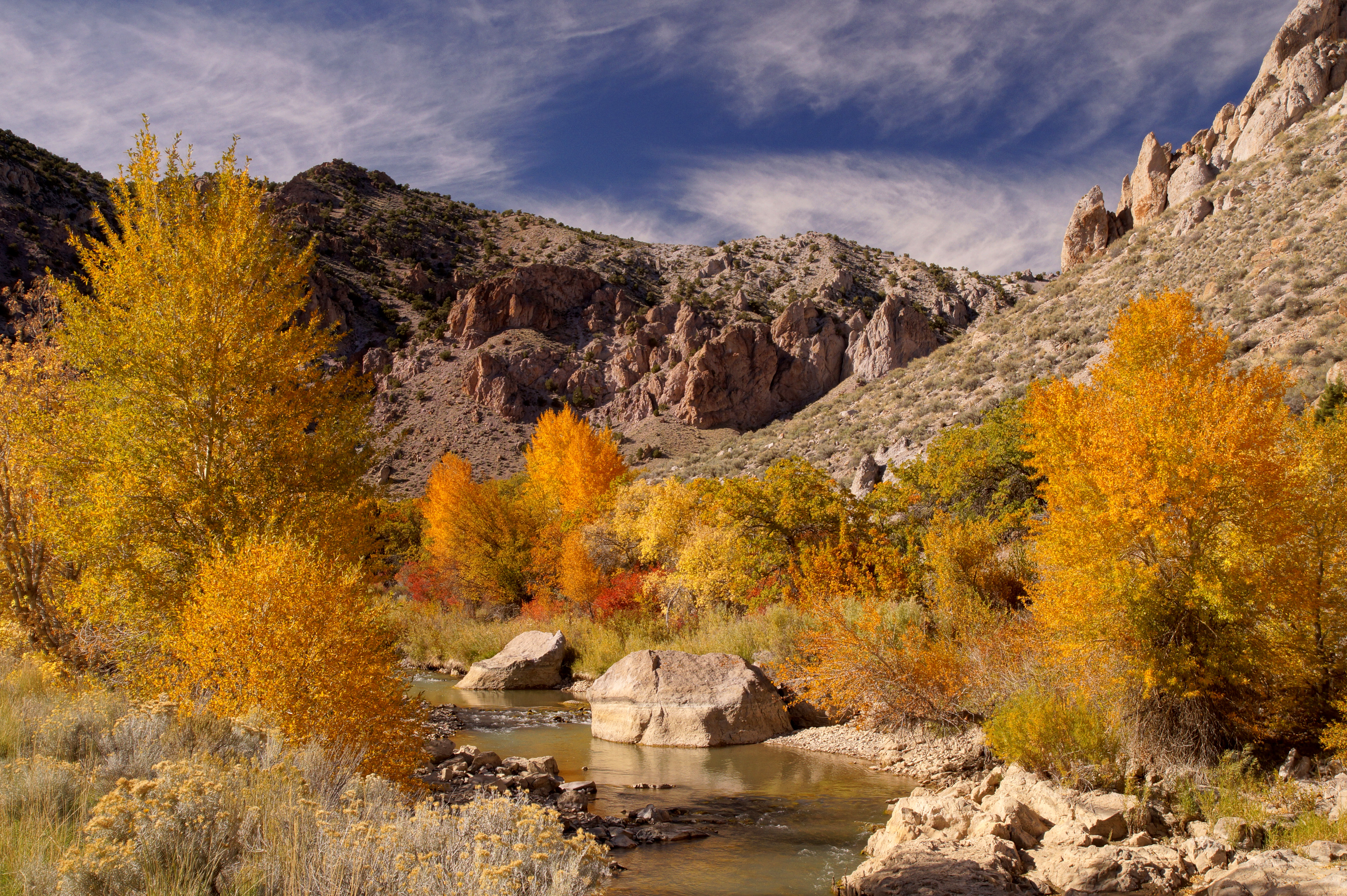 After a long drive through a deserted, dry landscape I was surprised to spot that scenery.